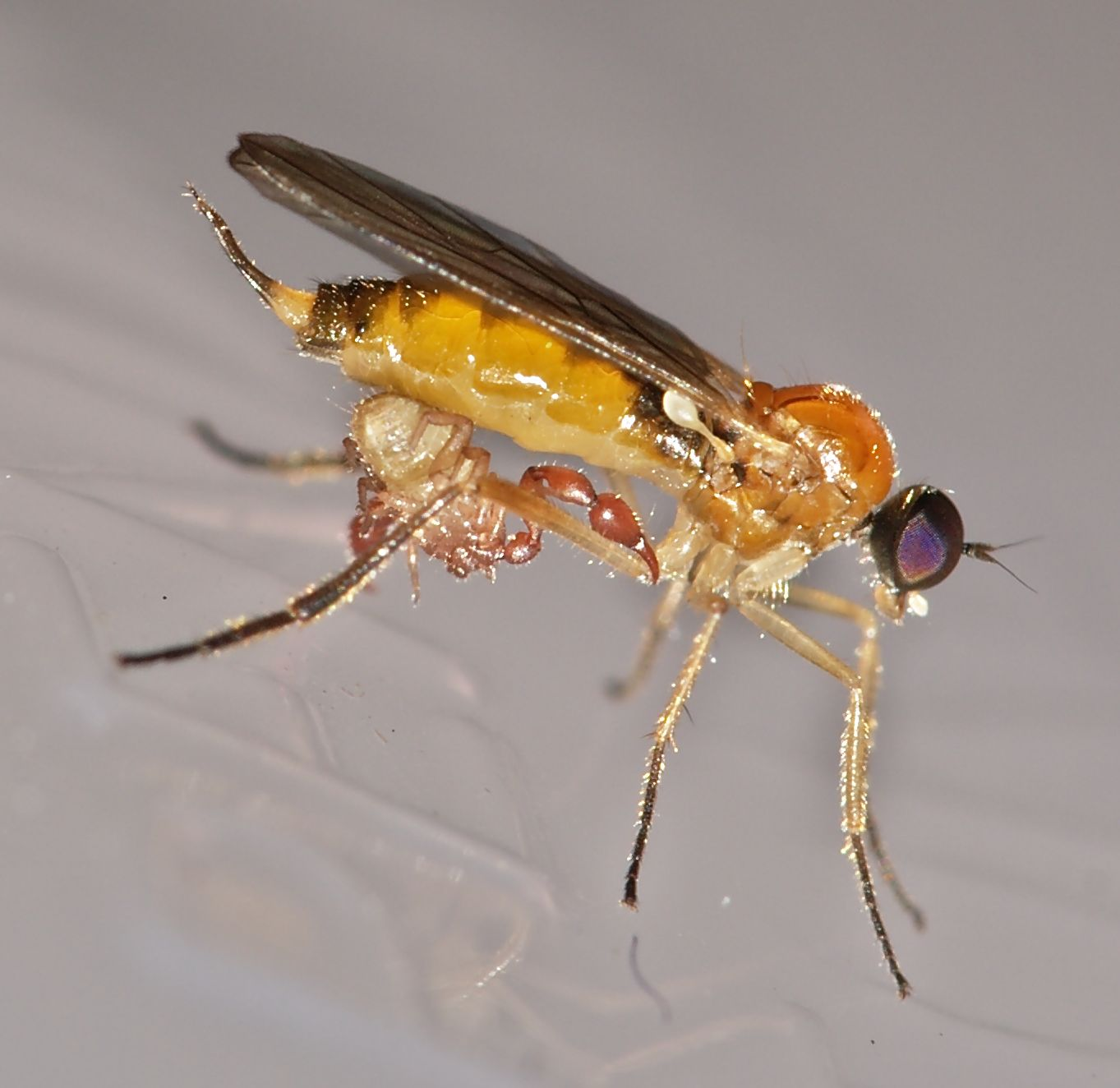 Leptopeza flavipes (Hybotidae), with "blind passenger" pseudoscorpion Lamprochernes sp. in Cologne, Germany.